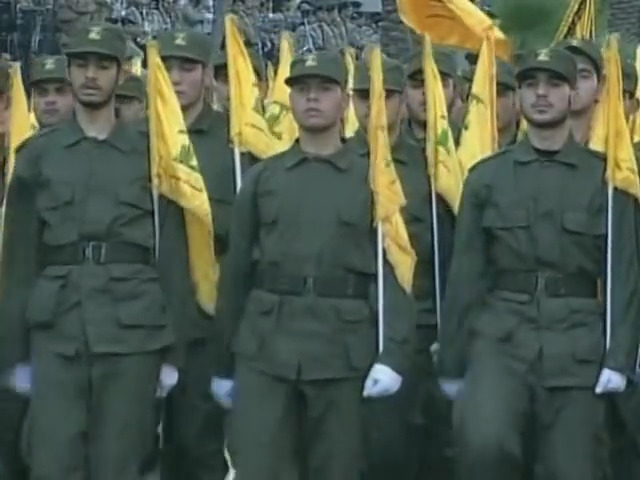 Hezbollah guys at a parade in south Beirut, Lebanon, in the late 2000s.